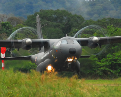 French Air Force Casa Cn 235-200m taking off from Maripasoula airstrip, French Guyana.